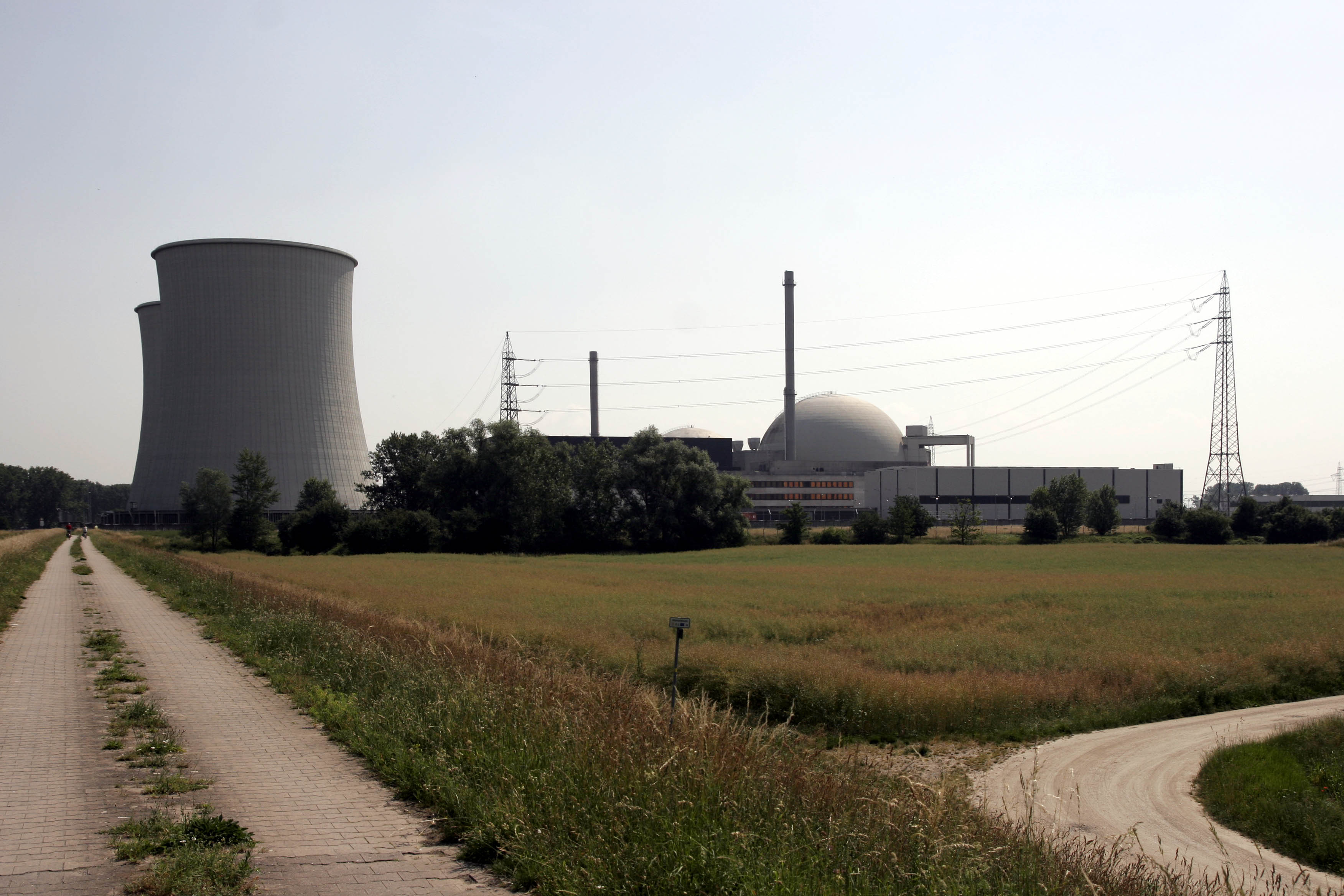 Biblis Nuclear Power Plant (Germany), block b seen from South-West.